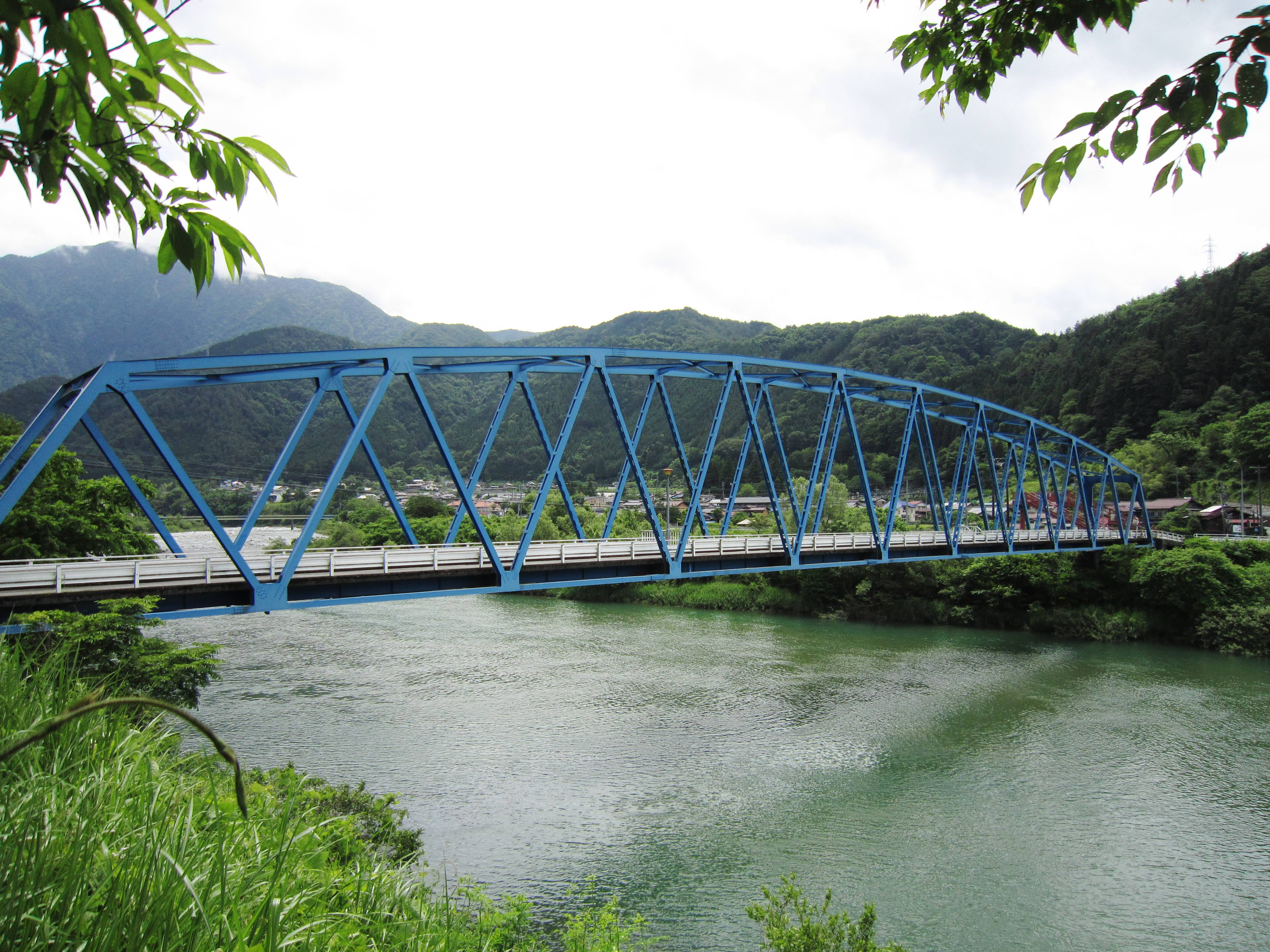 Masuta Bridge.